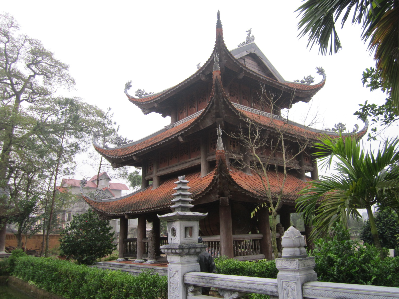 Drum Tower of Chùa NômTiếng Việt: Lầu trống chùa Nôm, Văn-lâm